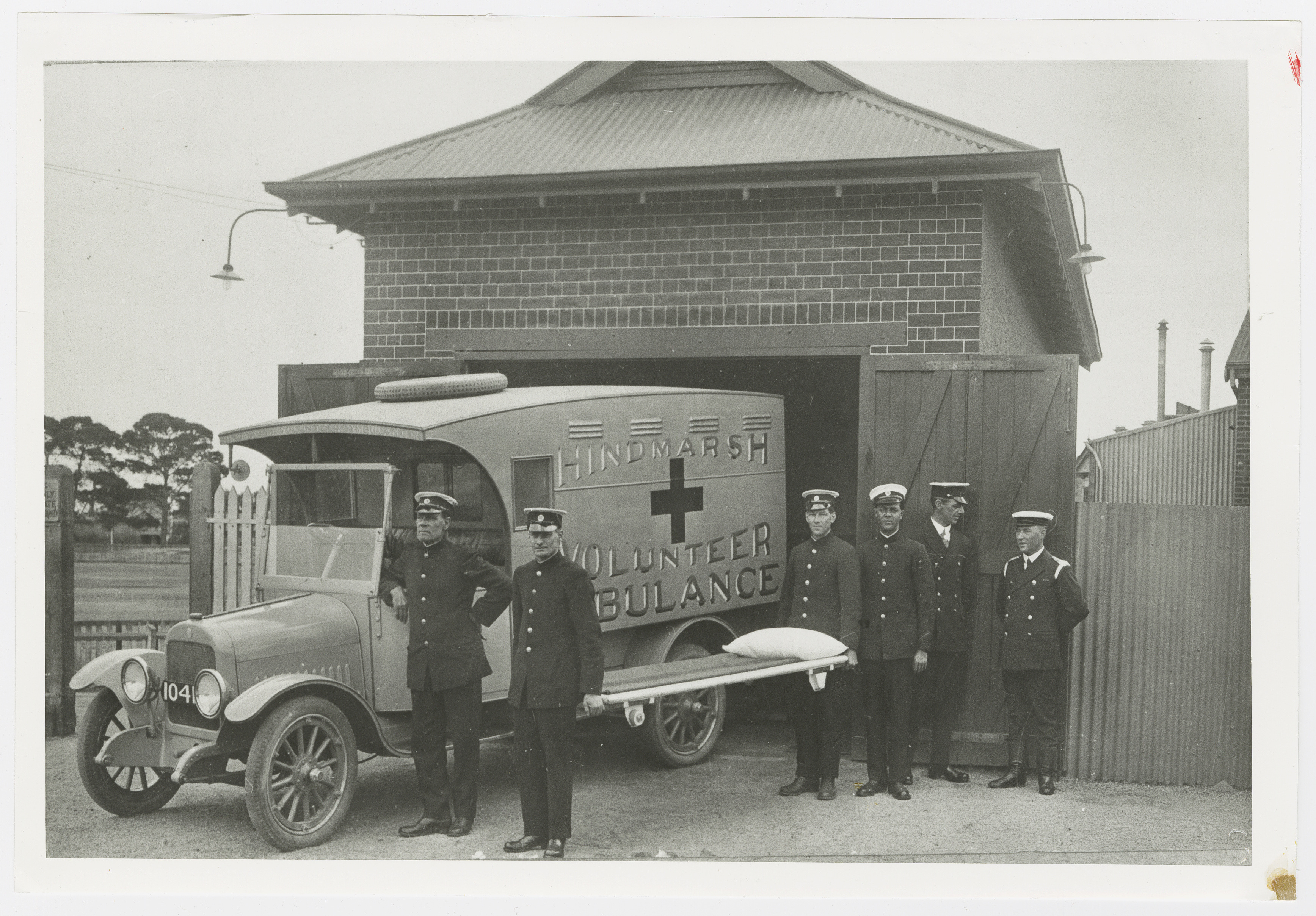 Ambulance in front of garage with six male uniformed attendants, two of which are carrying an empty stretcher